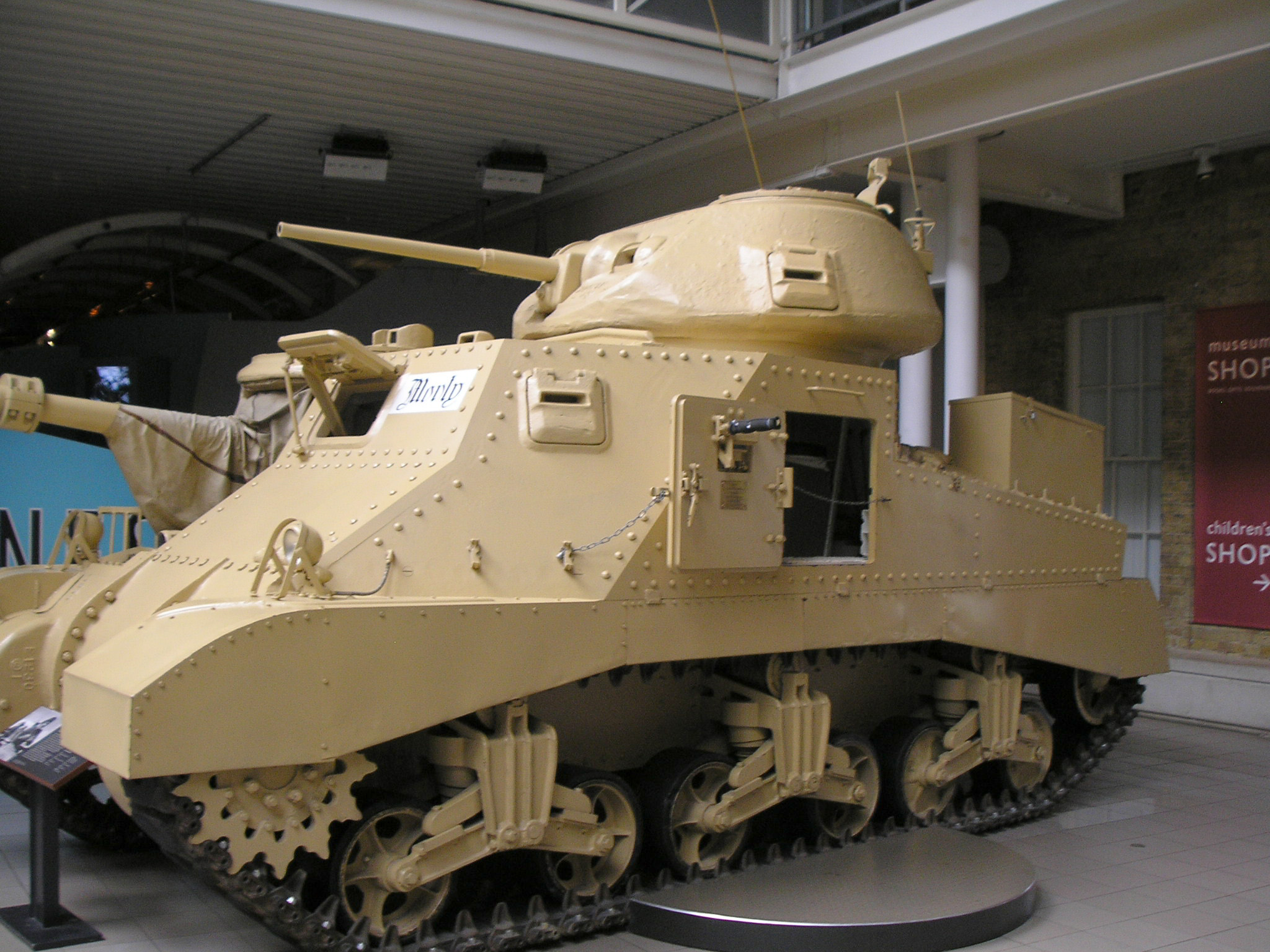 A M3 Grant tank used by Field Marshal Montgomery at the Imperial War Museum in London. Photo taken 25 April 2006.